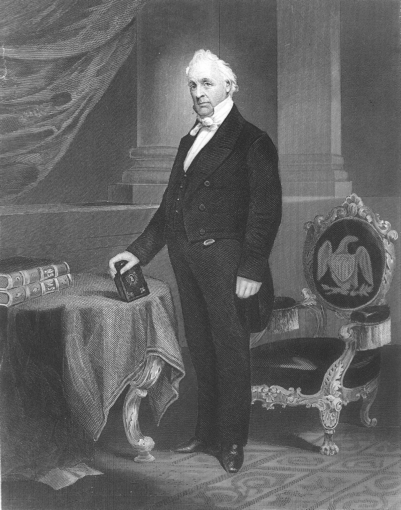 James Buchanan, former president of the USA